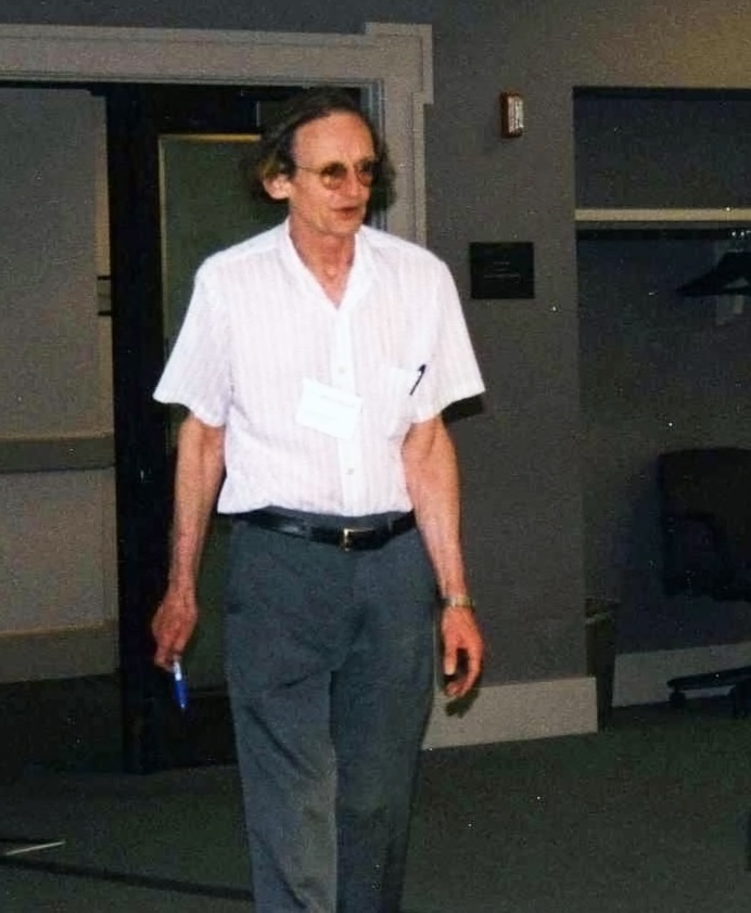 Michael Woodroofe lecturing in 2002 at Case Western University, as part of the Workshop on Developments and Challenges in Mixture Models, Bump Hunting and Measurement Error Models.